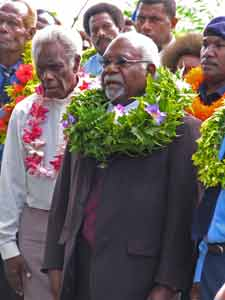 Paulias Matane at the Ramoaaina New Testament Dedication, in Molot Village, Duke of York, Papua New Guinea